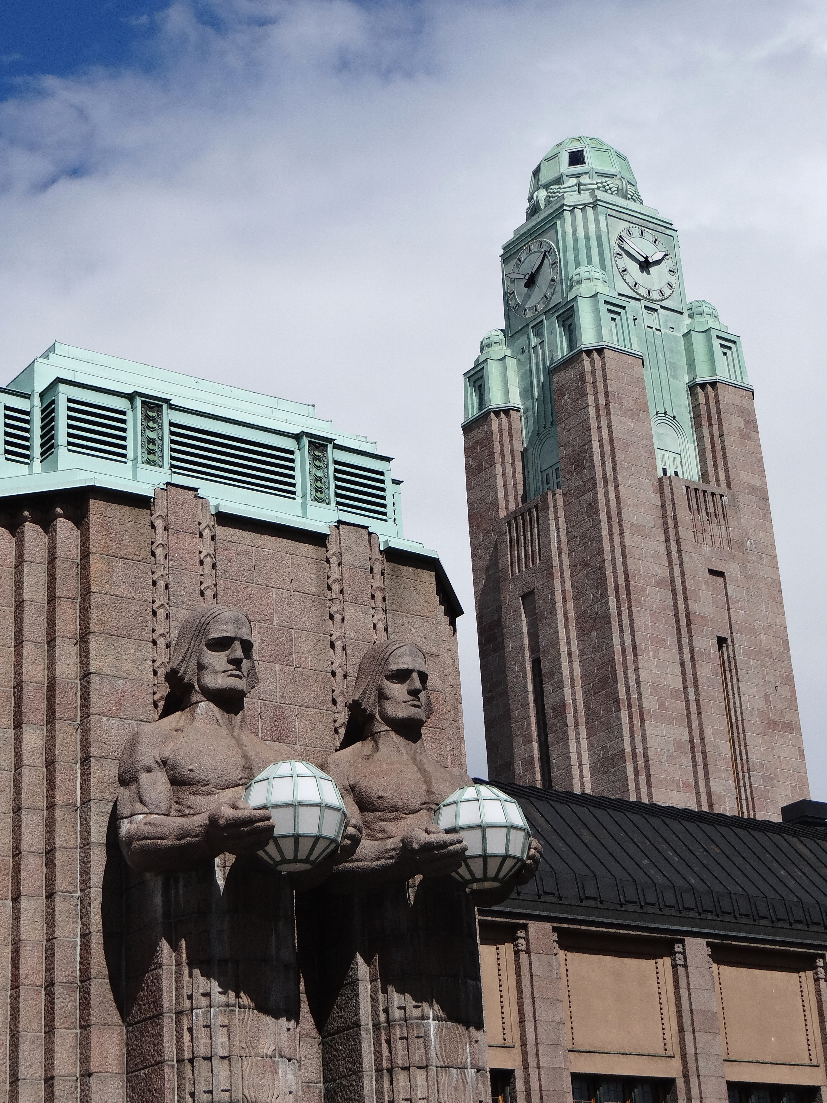 Detail of Train Station - Helsinki - Finland